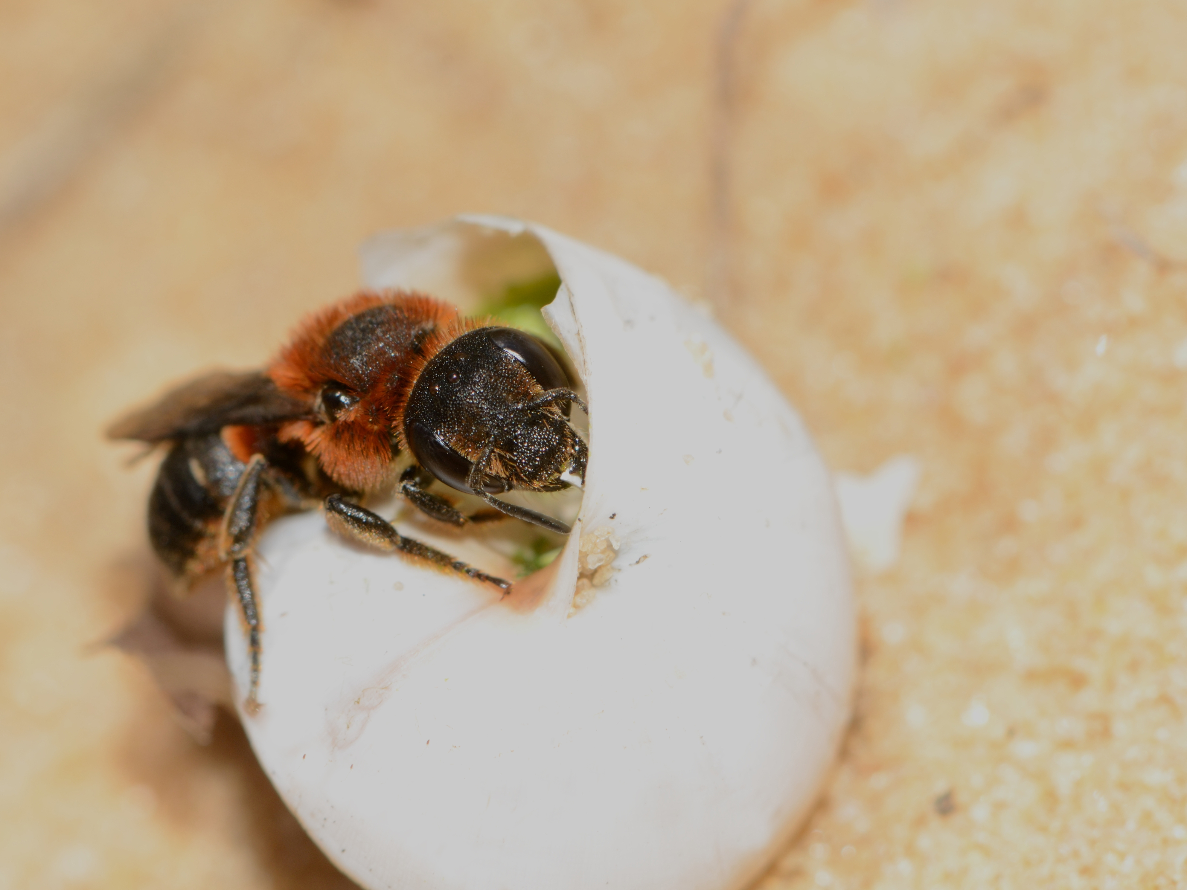 Osmia lhotelleriei, female closing her nest constructed in an empty snail shell, Holon sands, Israel, March 23, 2012. Det. Andreas Mueller 2013.